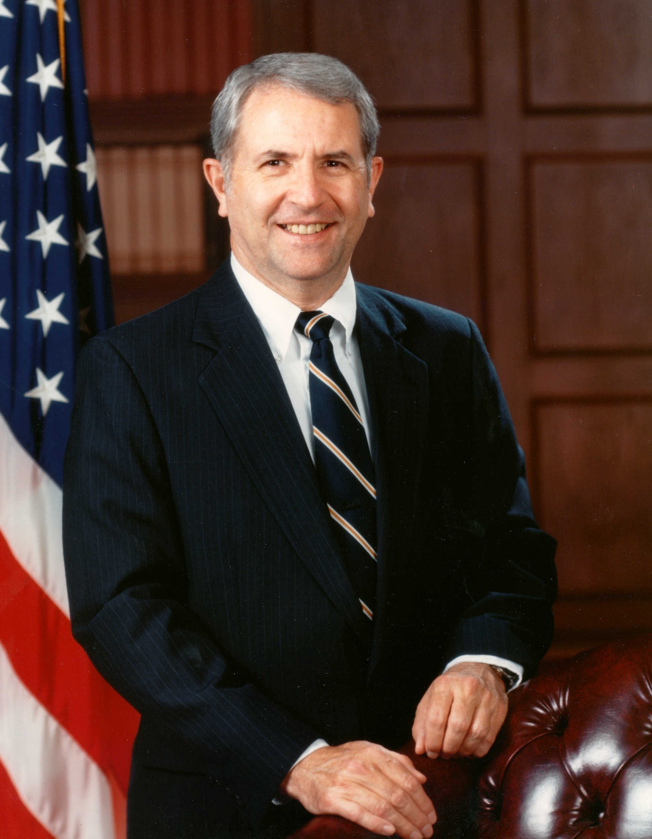 Vice Admiral Richard H. Truly served as NASA Administrator from May 14, 1989 to March 31, 1992. Prior to becoming Administrator, Adm. Truly served as NASA's Associate Administrator for Space Flight. In this position, he led the painstaking rebuilding of the Space Shuttle program after the Challenger accident. Adm. Truly's career began in the Navy and in 1965 he became one of the first military astronauts selected to the Air Force's Manned Orbiting Laboratory program in Los Angeles, California. He transferred to NASA as an astronaut in August 1969 then served as capsule communicator for all three Skylab missions in 1973 and the Apollo-Soyuz mission in 1975. He was pilot for the 747/Space Shuttle Enterprise approach and landing test flights during 1977, and his first space flight was November 12-14, 1981, as pilot of Space Shuttle Columbia (STS-2). After leaving NASA, Adm. Truly became Vice President and Director of the Georgia Tech Research Institute, Georgia Institute of Technology, in Atlanta.